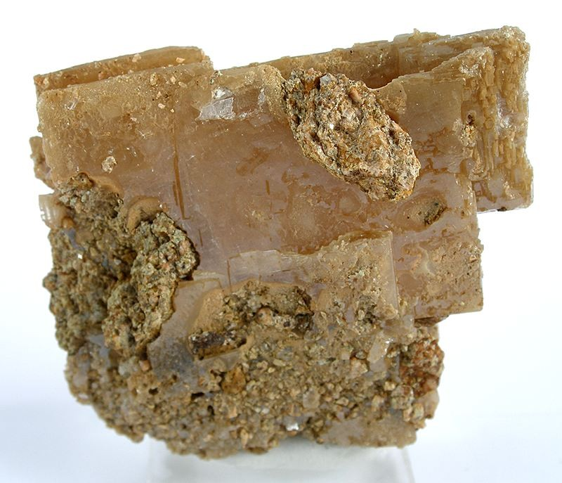 Stolzite Locality: Ste Lucie Mine, St Léger-de-Peyre, Marvejols, Lozère, Languedoc-Roussillon, France (Locality at ) Size: 5.3 x 5.4 x 2.1 cm. An incredible crystal for the species, complete and terminated, and the largest known so far as I can determine from asking people who specialize in such things. Illustrated in the John Barlow Collection book, and stated by him to be the largest known, this is an important French mineral and an important rarity. I back tracked its history to Eric Asselborn, who handled this pocket when it was found after purchasing the contents from the strahler. This quality has never been repeated despite more searching, and Eric assured me (in writing on the label here), that he kept this for some time as the largest complete crystal of the find, eventually parting with it to Barlow. It is contacted slightly with attached matrix, but it IS complete. His note states that this is the largest crystal from the pocket.(RWMW Collection)